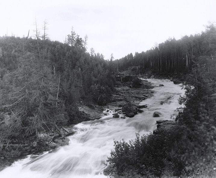 Photograph, Little Bostonnais Falls near La Tuque, QC, 1916 (?), Wm. Notman & Son, Silver salts on glass - Gelatin dry plate process - 20 x 25 cm